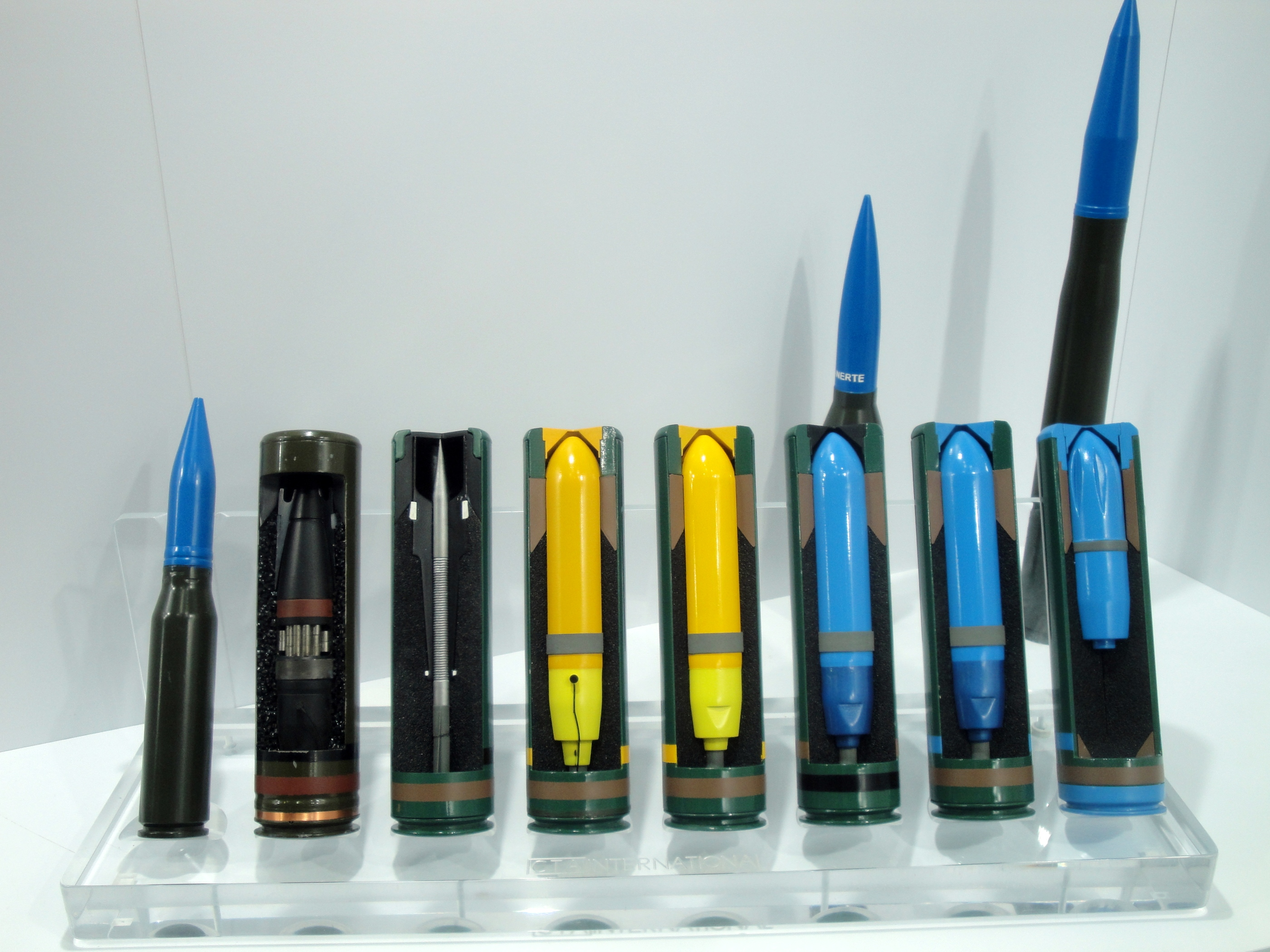 Ammunition for the 40 mm Cased Telescoped Armament System (CTAS), IDET/PYROS/ISET 2019, Brno